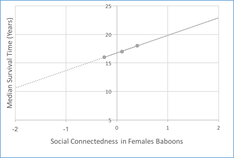 Medial Survival Time vs. Social Connectedness in Female Baboons